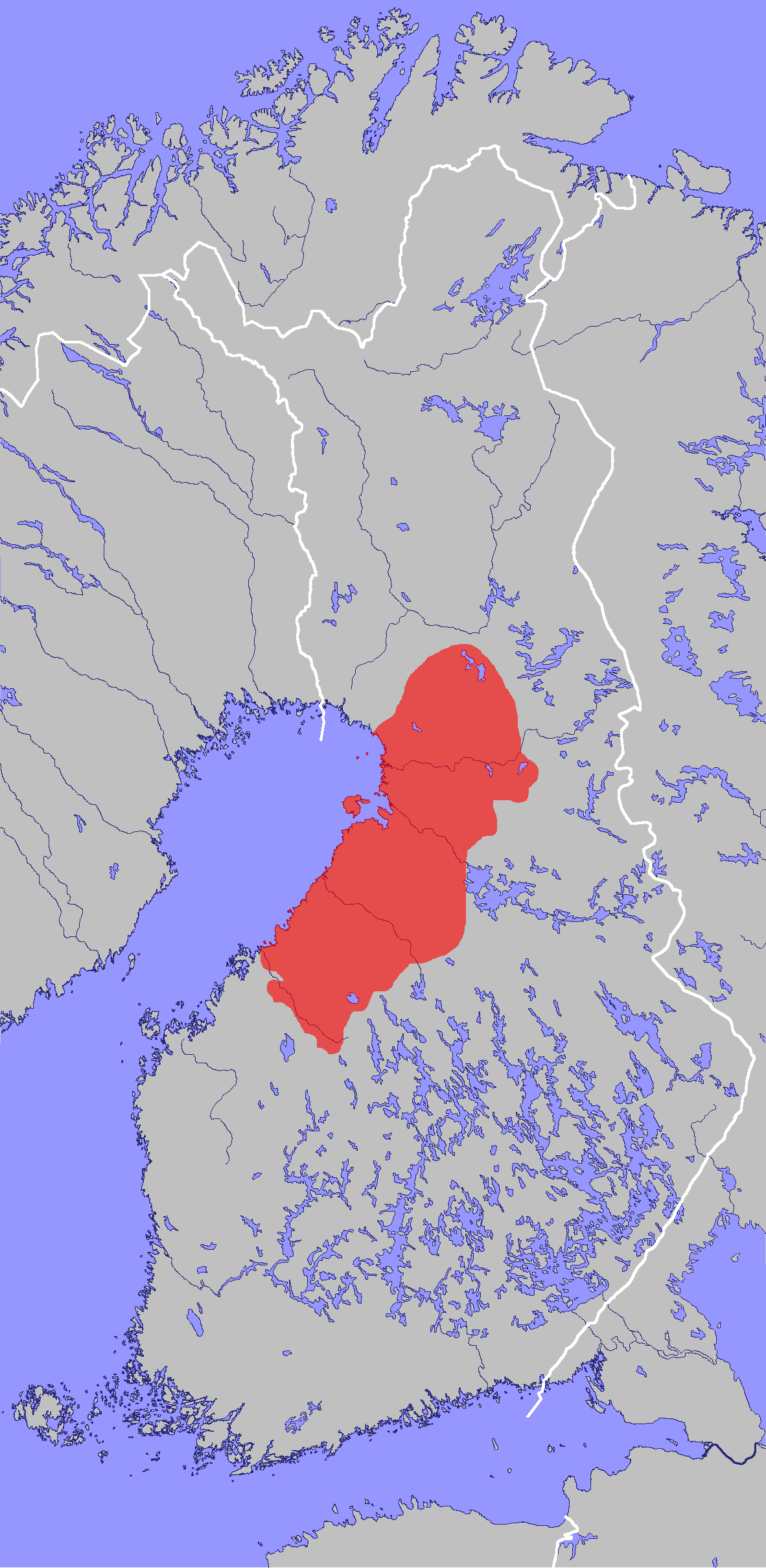 Area where Central and Northern Ostrobothnian dialects of Finnish are spoken